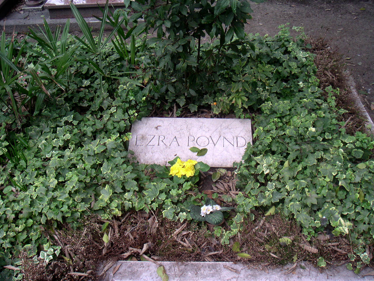 Grave of Ezra Pound in San Michele (Venice, Italy).